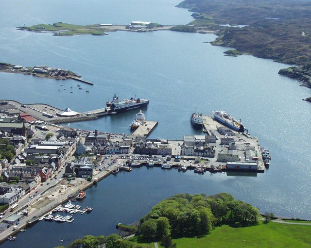 Port of Stornoway Stornoway is one of the best examples of a natural harbour in the British Isles and is the principal port and gateway to the Scottish Western Isles